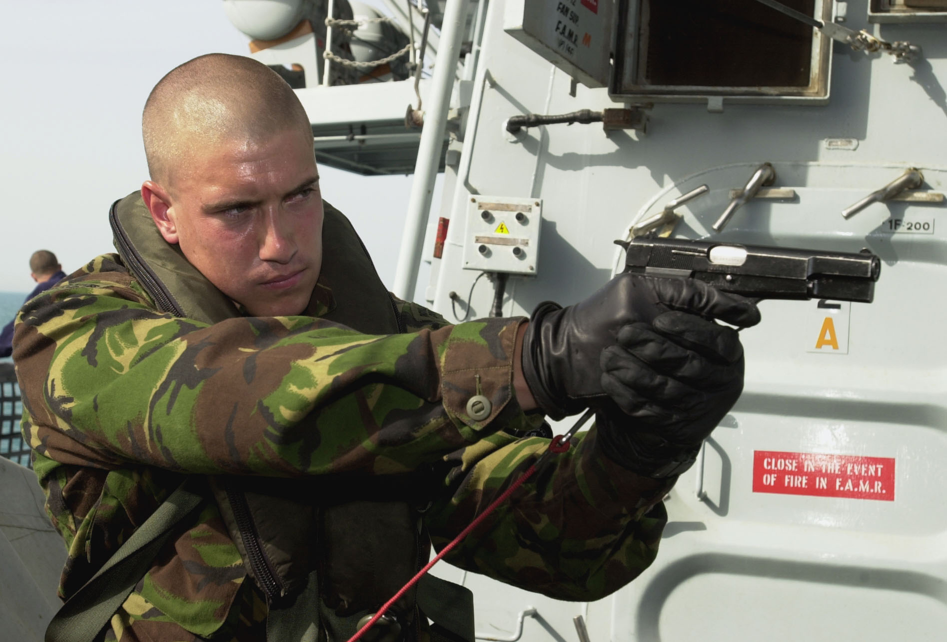 At sea aboard HMS Portland (F 79) Apr. 17, 2002 -- MNE Nick Mills from Leicester, England, currently attached to "O" Squadron of Fleet Protection Group Royal Marines, (FPGRM), secures an area during boarding training exercises aboard the British Royal Navy frigate. Portland is on a scheduled seven-month deployment with coalition forces in support of Operation Enduring Freedom. U.S. Navy photo by Photographer’s Mate 1st Class Kevin H. Tierney. (RELEASED)